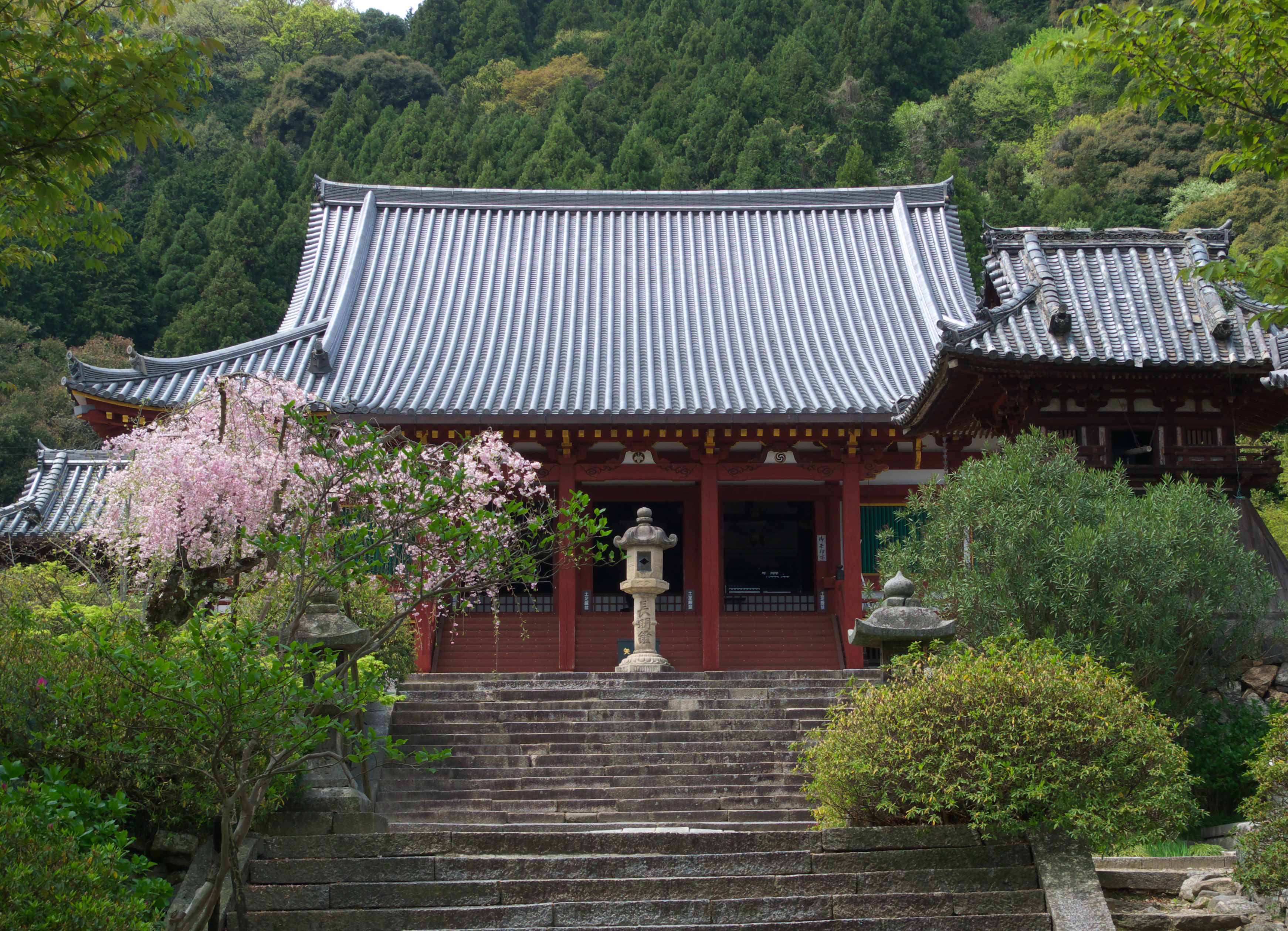 Hondo of Yata-dera, Yamatokoriyama city, Japan.